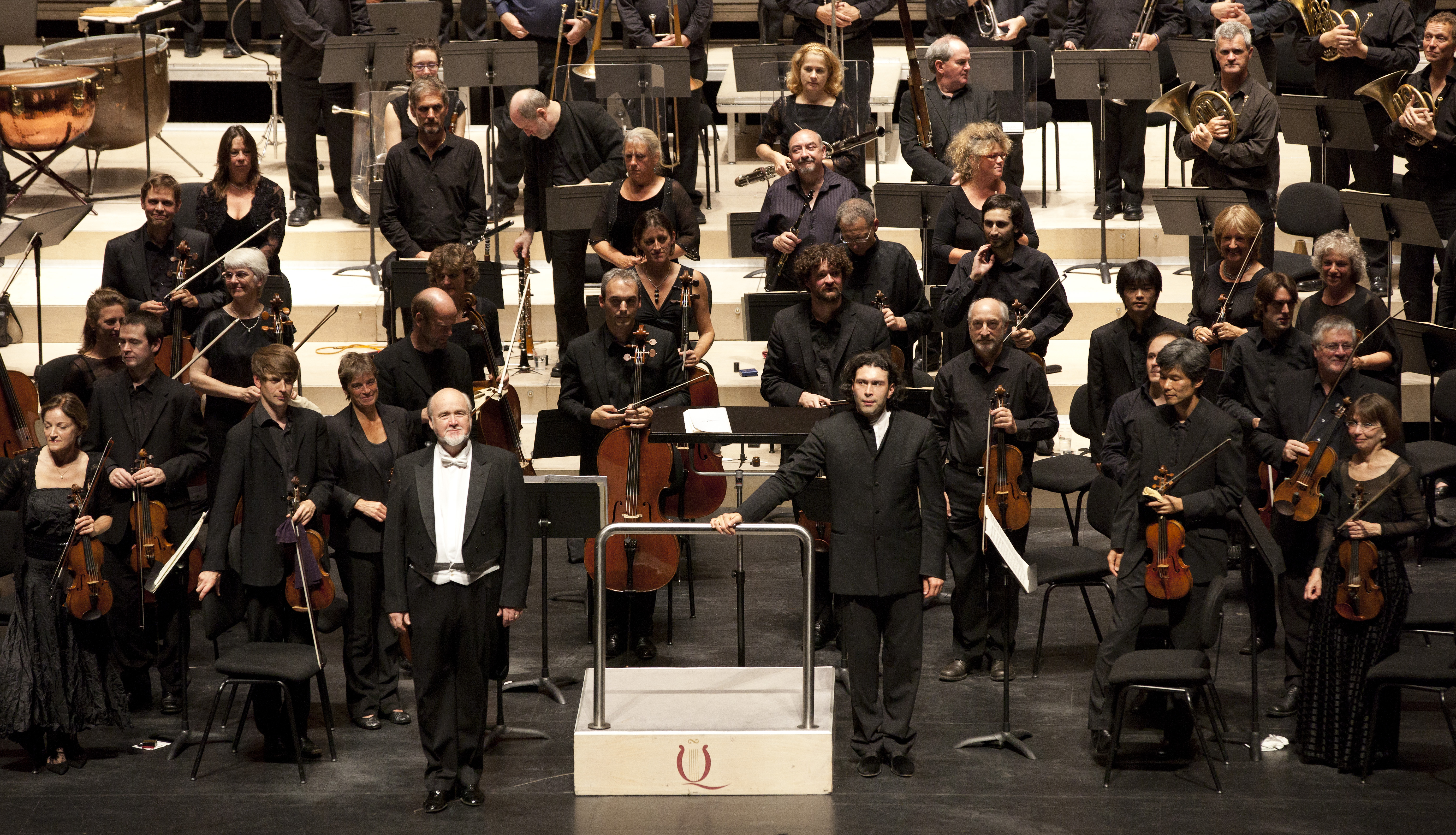 Orchestra of Age of Enlightenment in San Sebastián, Spain. 08/23/2011